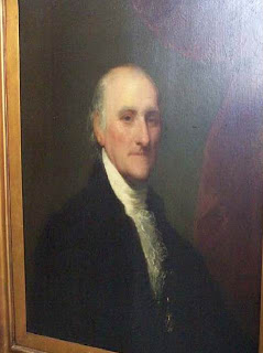 Gilbert Stuart portrait of Samuel Miles (Philadelphia) wearing the Order of Cincinnati ribbon